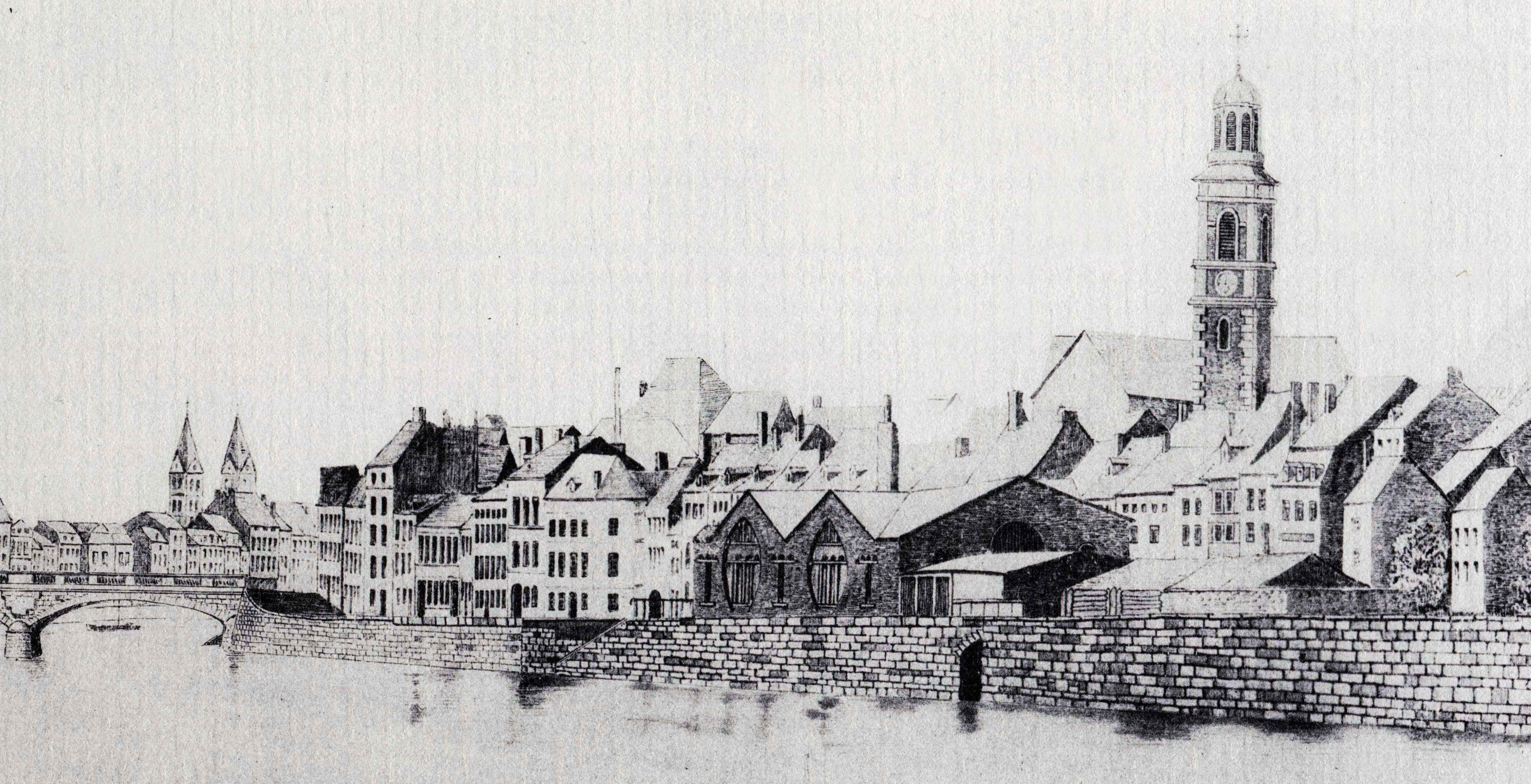 Liege's Quai Edouard van Beneden, formerly Quai-des-pêcheurs